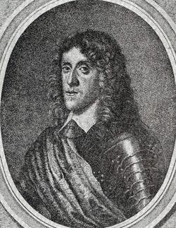 Adolph John of Palatinate and Sweden (1629-1689), brother of King Carl X Gustav of Sweden